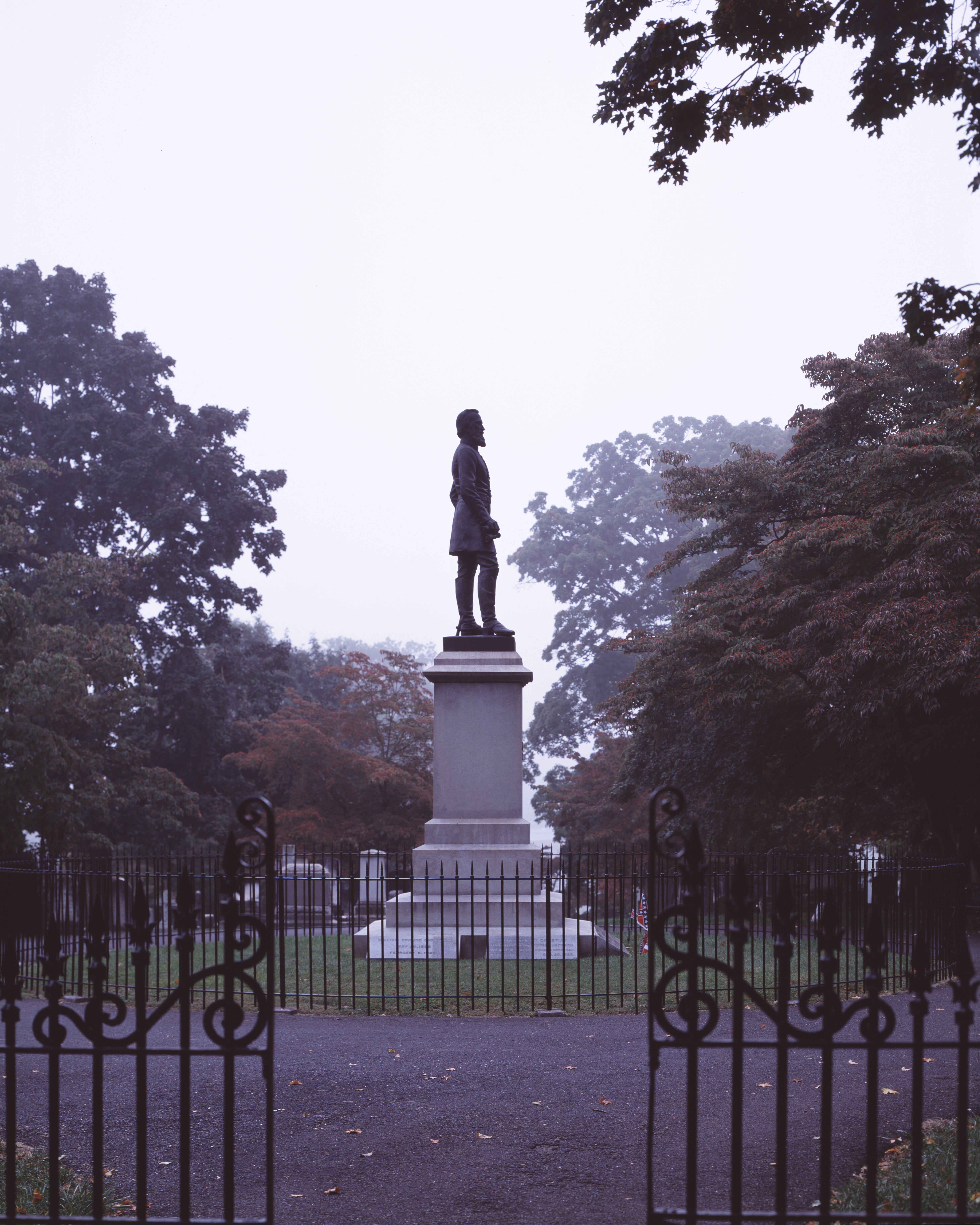 Statue of Stonewall Jackson sculpted by Edward V. Valentine and dedicated in 1891. Jackson and family are buried beneath the statue. Located in the Stonewall Jackson Memorial Cemetery. It began as a burial ground for old Presbyterian Church in 1789.